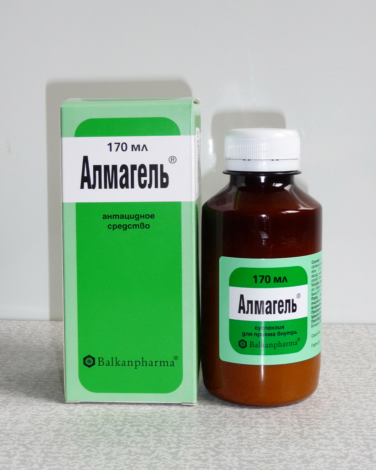 Antacid Almagel 170 ml